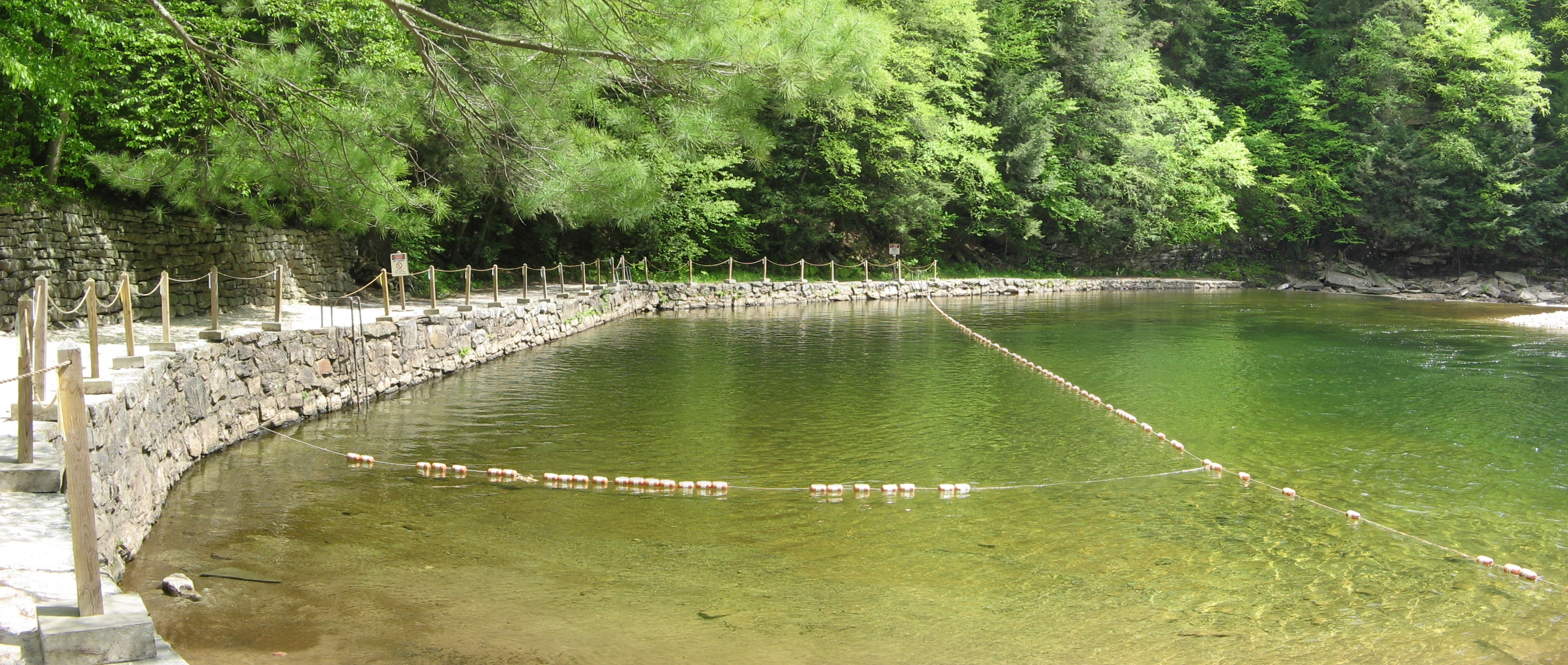 CCC-built Beach and Swimming area on Loyalsock Creek in Worlds End State Park, near Forksville, Sullivan County, Pennsylvania, USA